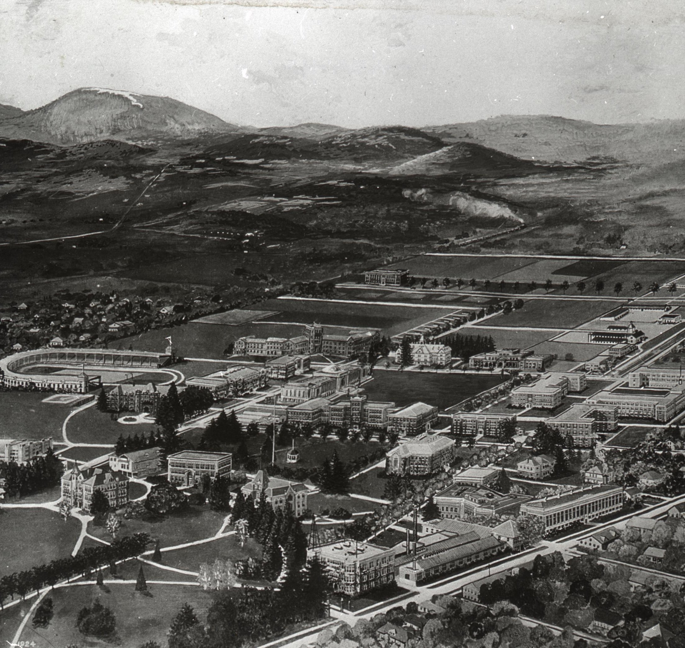 Original Collection: Visual Instruction Department Lantern Slides Item Number: P217:set 028 001 You can find this image by searching for the item number by clicking here. Want more? You can find more digital resources online. We're happy for you to share this digital image within the spirit of The Commons; however, certain restrictions on high quality reproductions of the original physical version may apply. To read more about what “no known restrictions” means, please visit the Special Collections & Archives website, or contact staff at the OSU Special Collections & Archives Research Center for details.